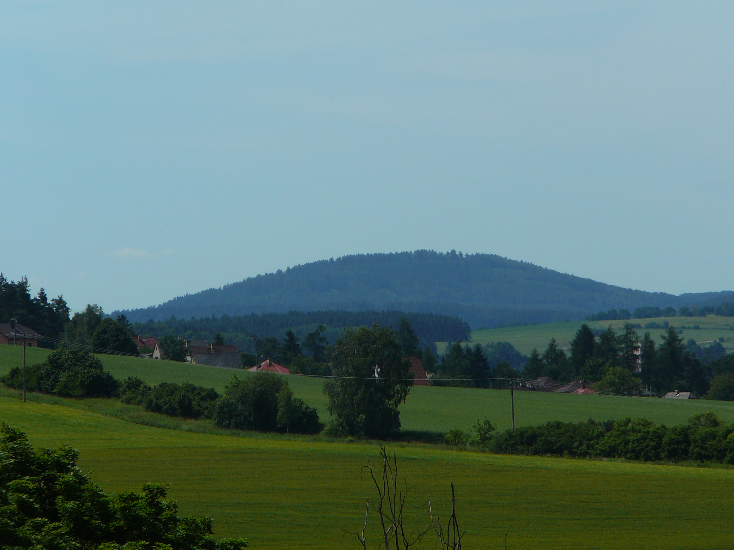 Neštětická hora (536 m), Central Bohemia, Czech Republic